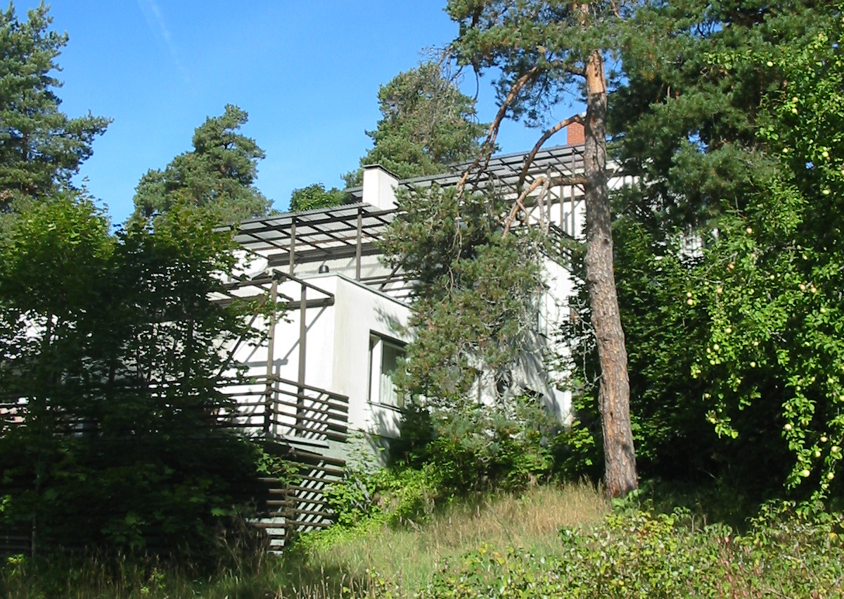 Terassitalo by Alvar Aalto in Kauttua, Eura, Finland